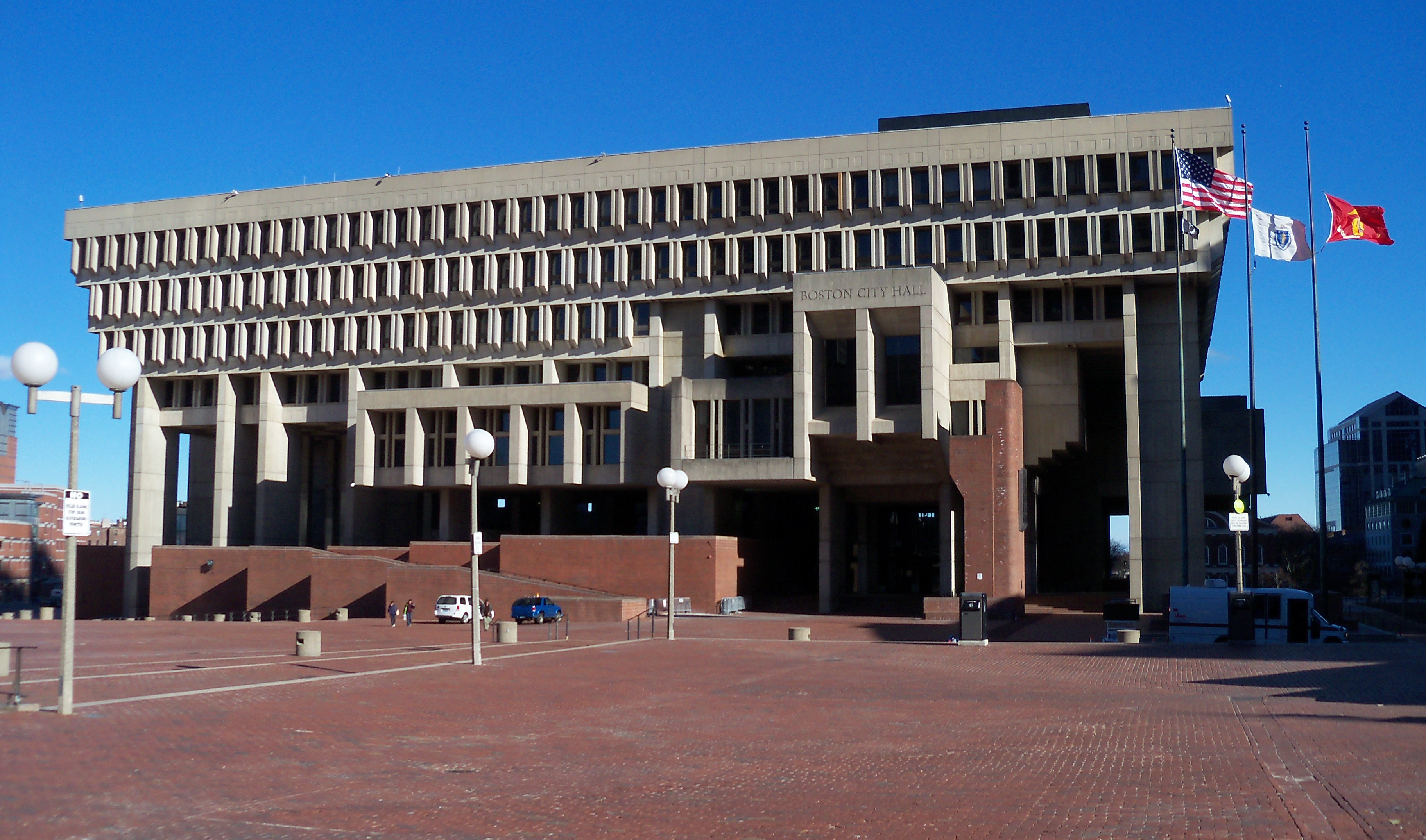 Boston City Hall in Boston, Massachusetts, USA.